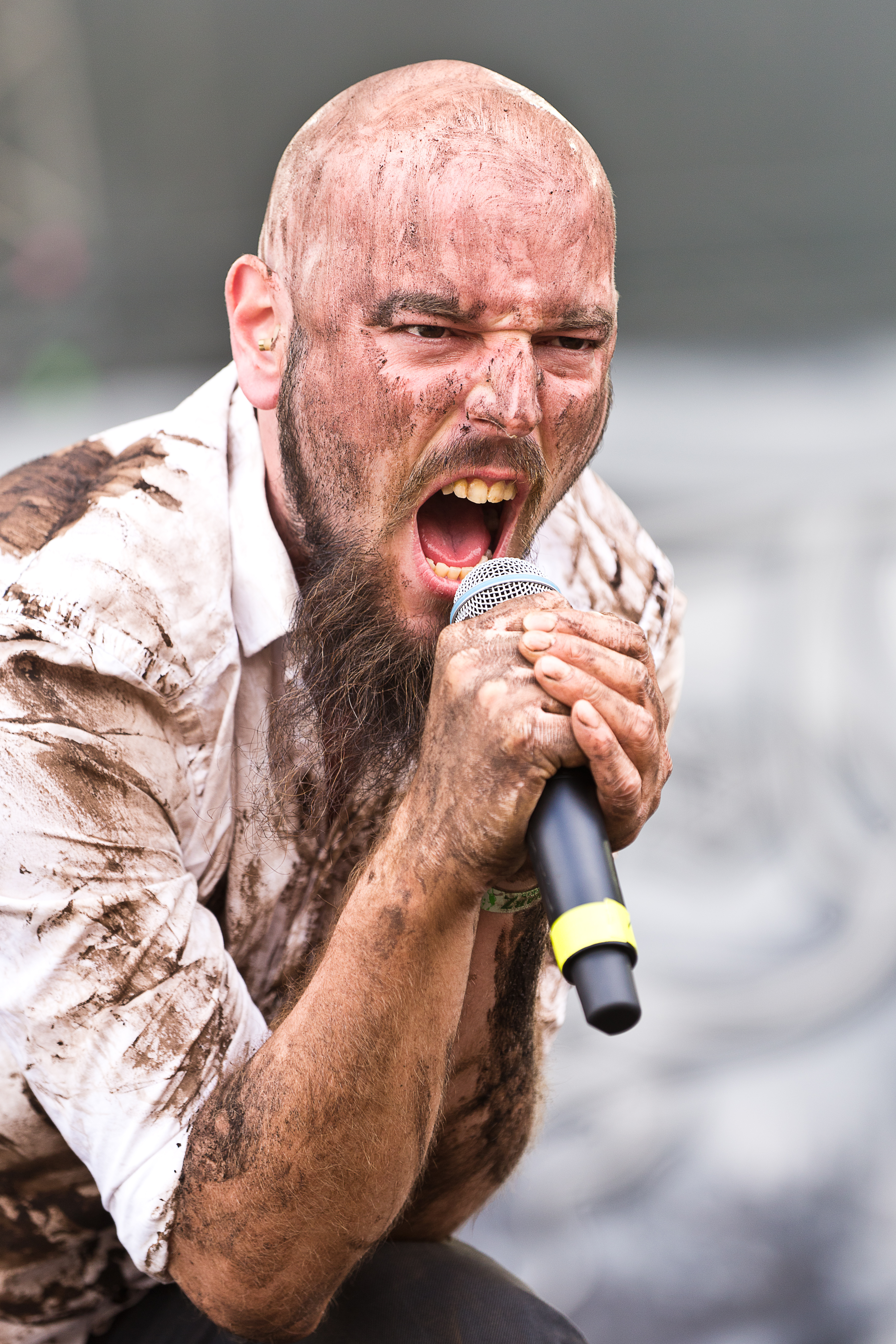 The German pagan metal band Finsterforst at the Rockharz Open Air 2015 in Ballenstedt/Germany.